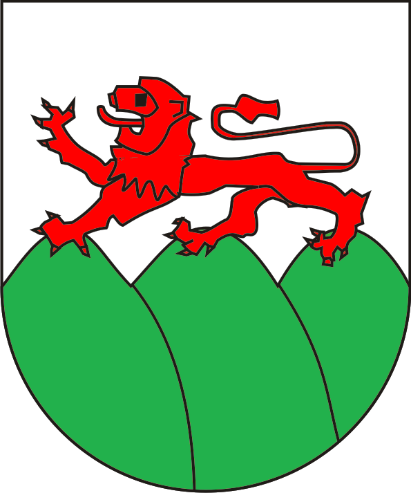 coats of arms of the county of Mindelheim